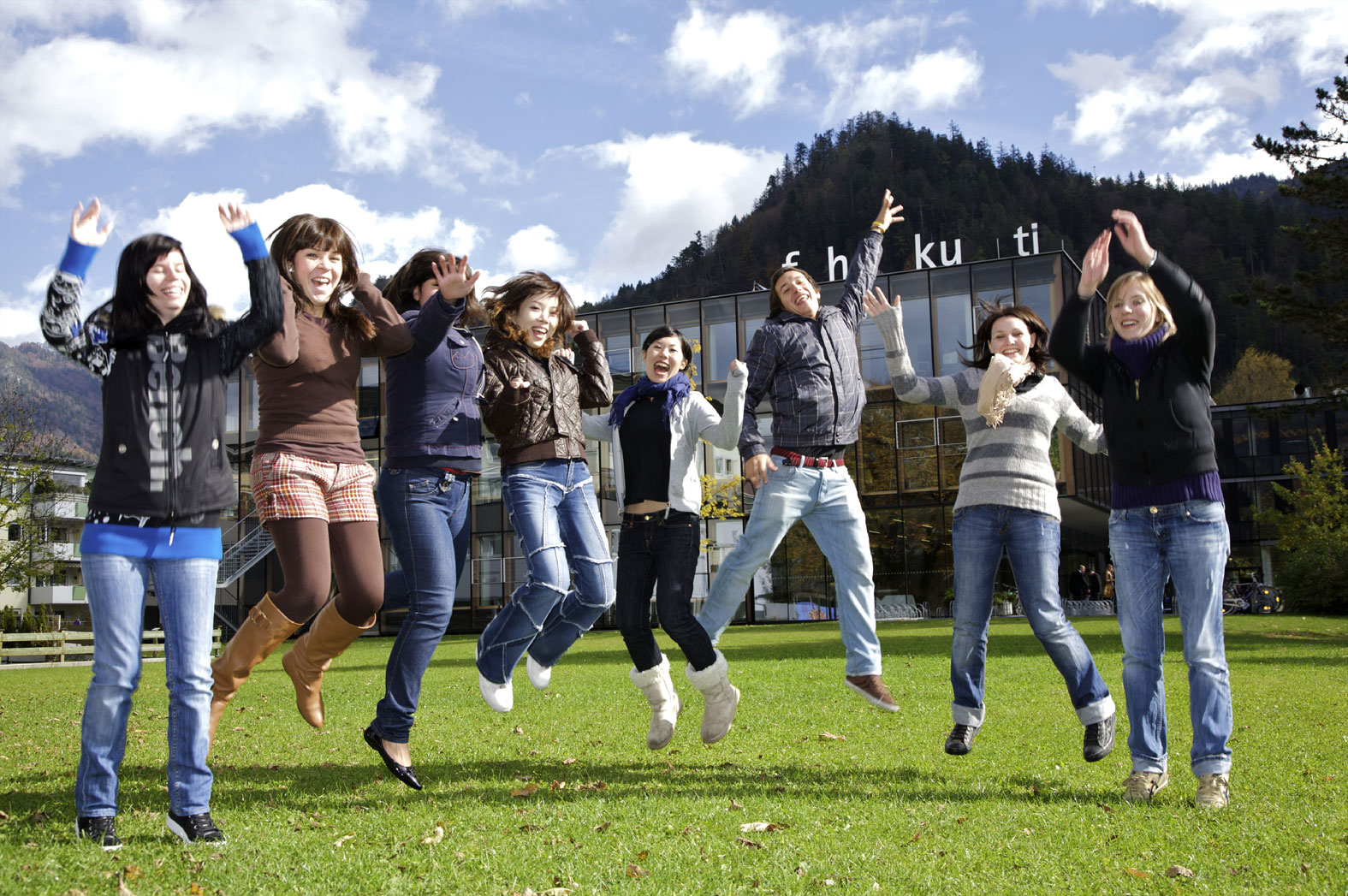 Incoming students of FH Kufstein, Wintersemester 2008